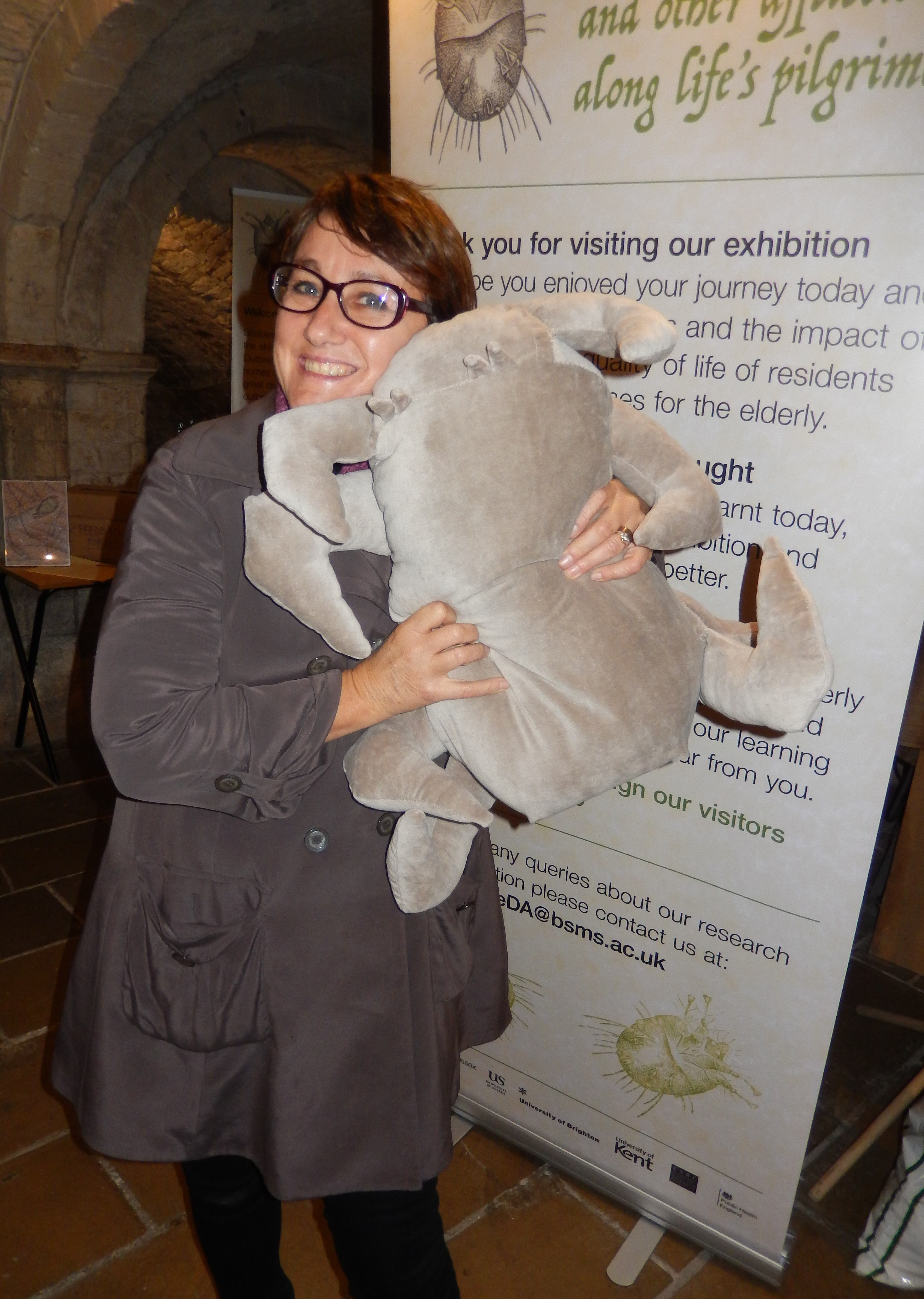 Project member Stefania Lanzia using a soft toy scabies mite to publicise scabies, an often overlooked condition especially among the elderly. Public health exhibition, Canterbury, Kent, England.